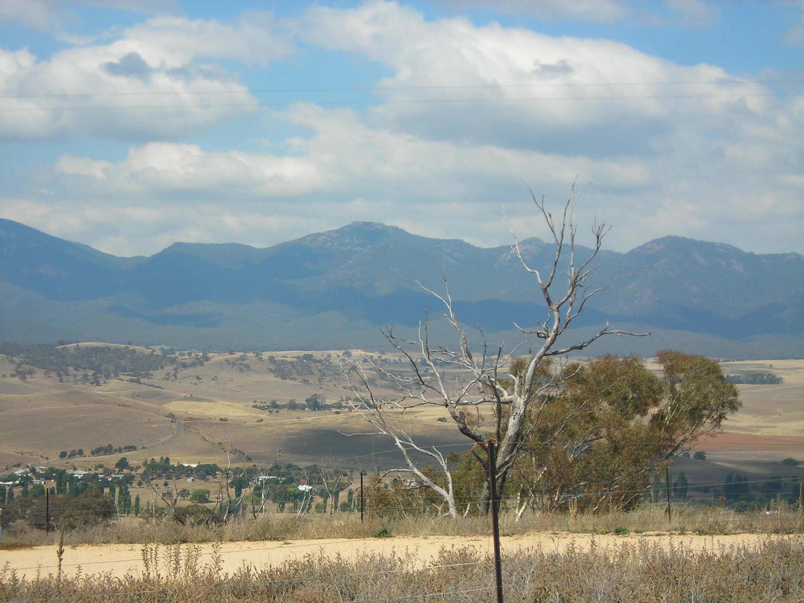 View of Michelago, NSW from Loorungah, Clearview Road 2009. Author: Thomas Faunce